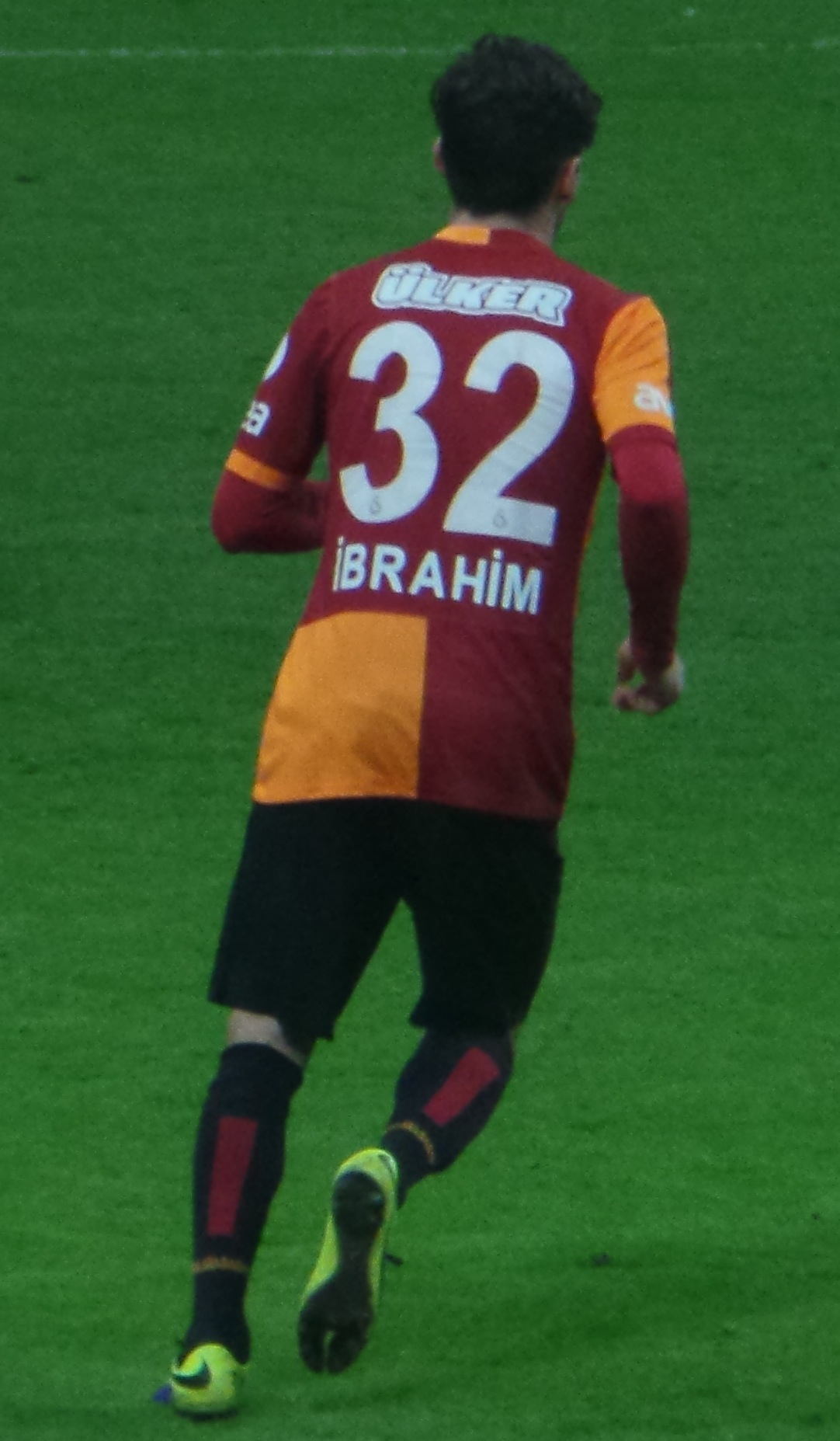 İbraim with his nr 32.